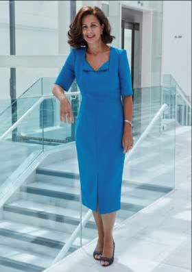 Daniella Tilbury is a Gibraltarian academic, educator and sustainable development leader pictured at the University of Gibraltar.